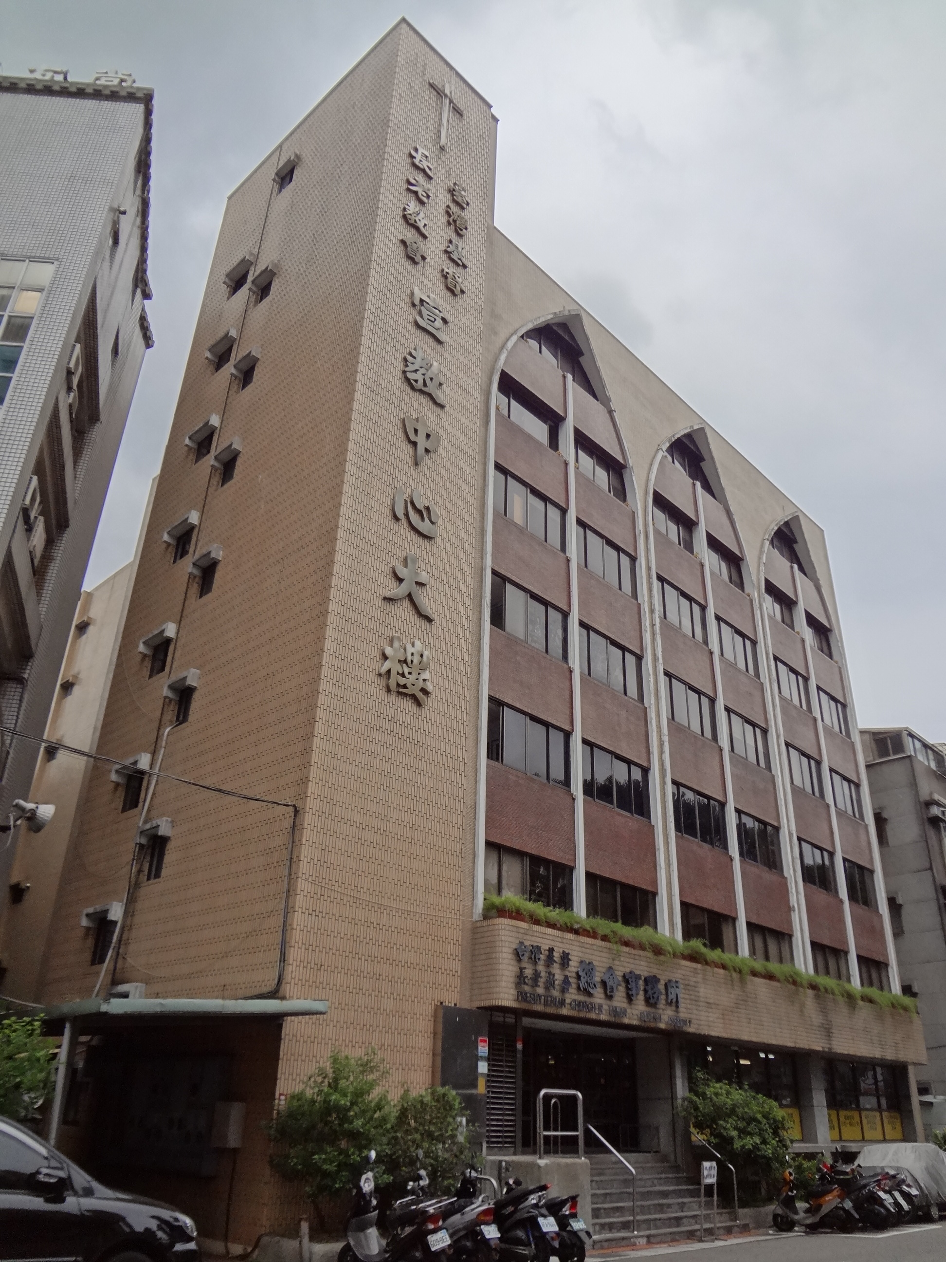 Evangelism Center Building, The Presbyterian Church in Taiwan.